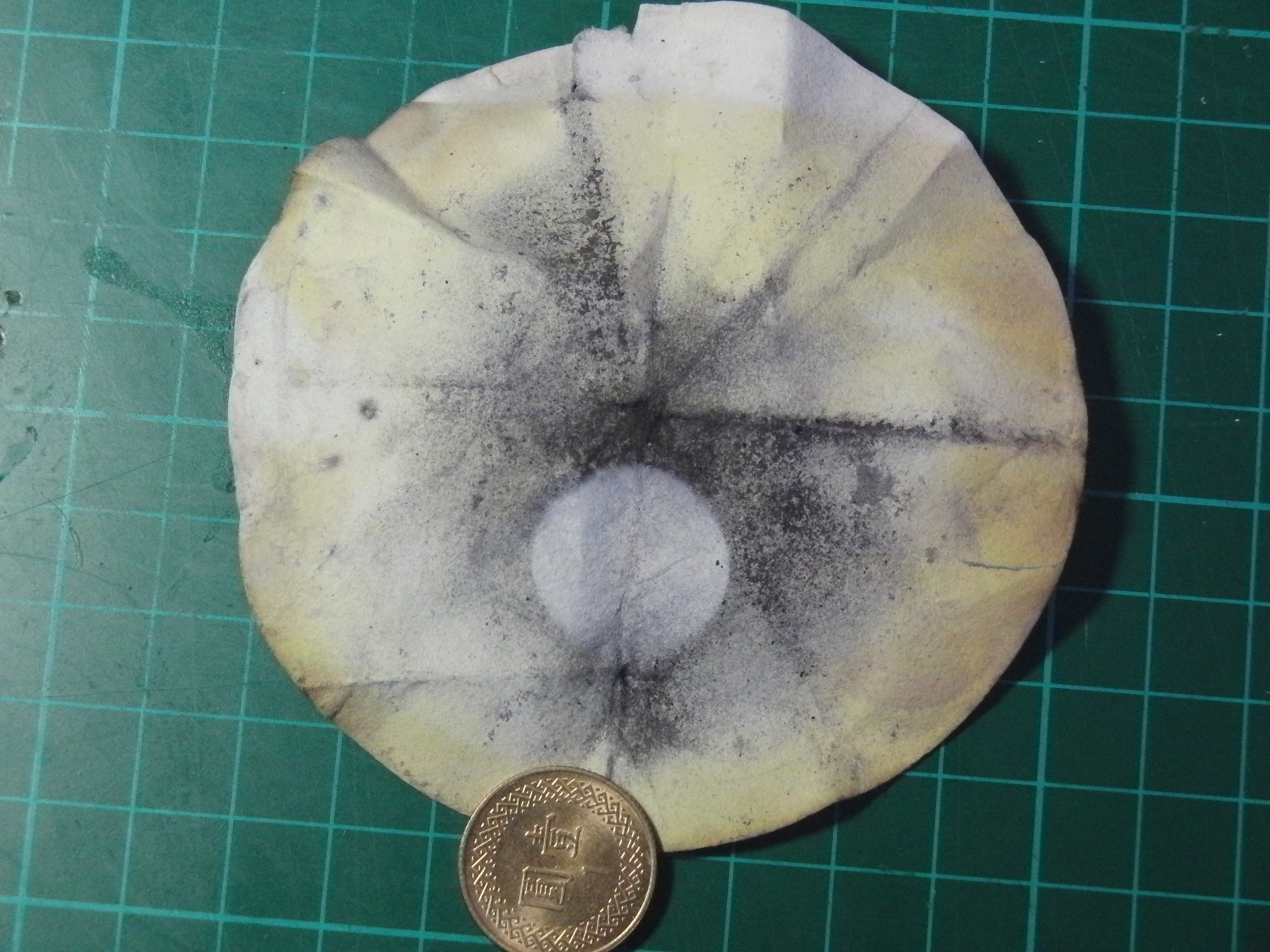 Silver chloride decomposes